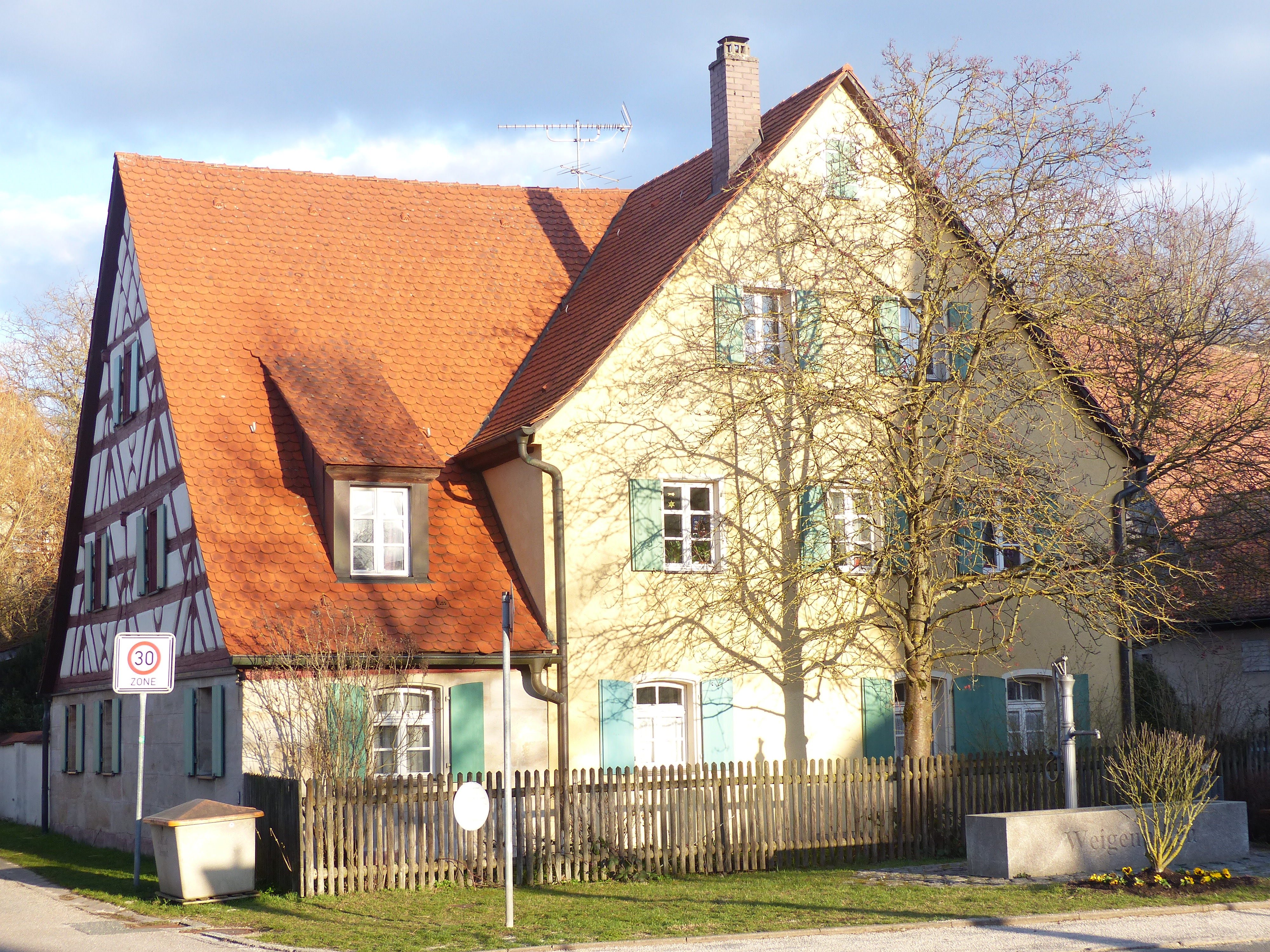 A byre-dwelling house in the village Weigenhofen, a part of the town Lauf an der Pegnitz